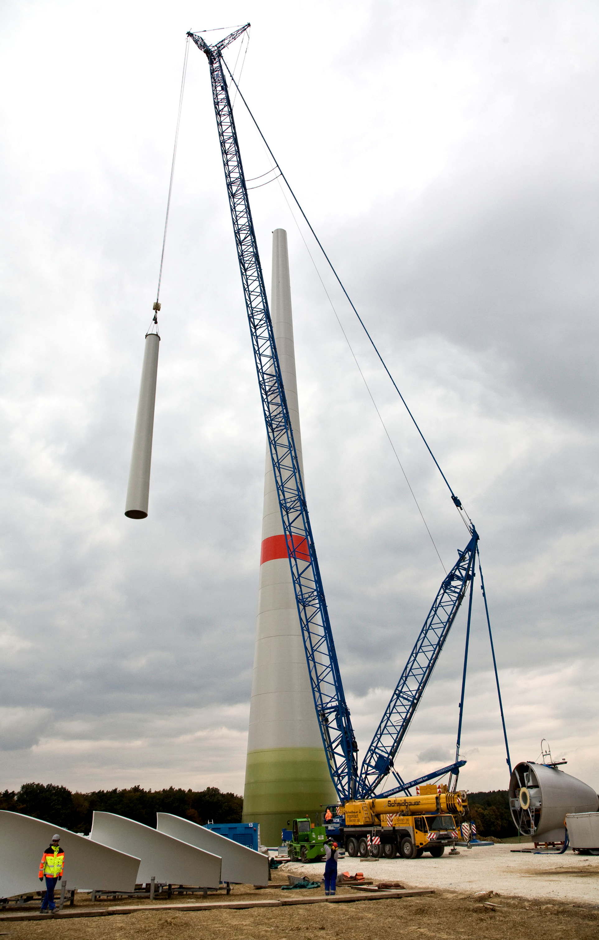 Construction of the Windkraftanlage Ammerfeld